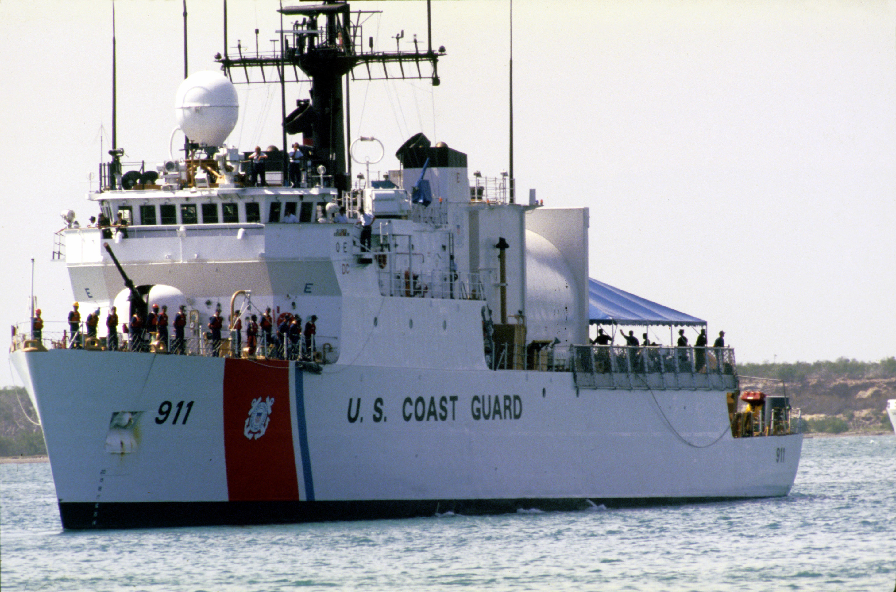 A United States Coast Guard cutter, that intercepted and transported the Haitian refugees who fled the turmoil in their country, in the port at the U.S. Naval Base at Guantanamo Bay, Cuba. More than 14,000 refugees attempted to reach the United States by boat and were picked up by the Coast Guard in international waters and transported to the base at Guantanamo Bay.